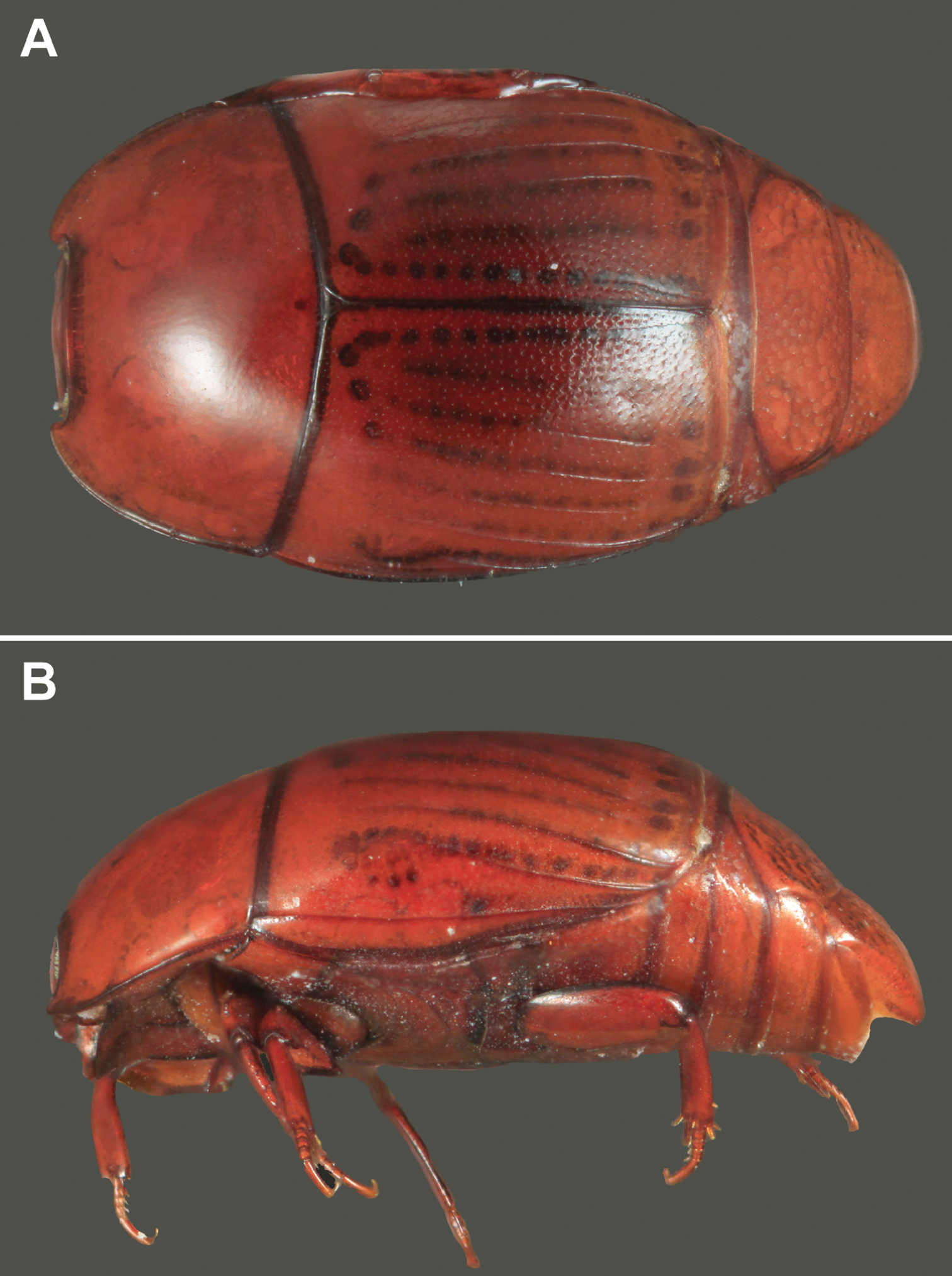 Kaszabister barrigai